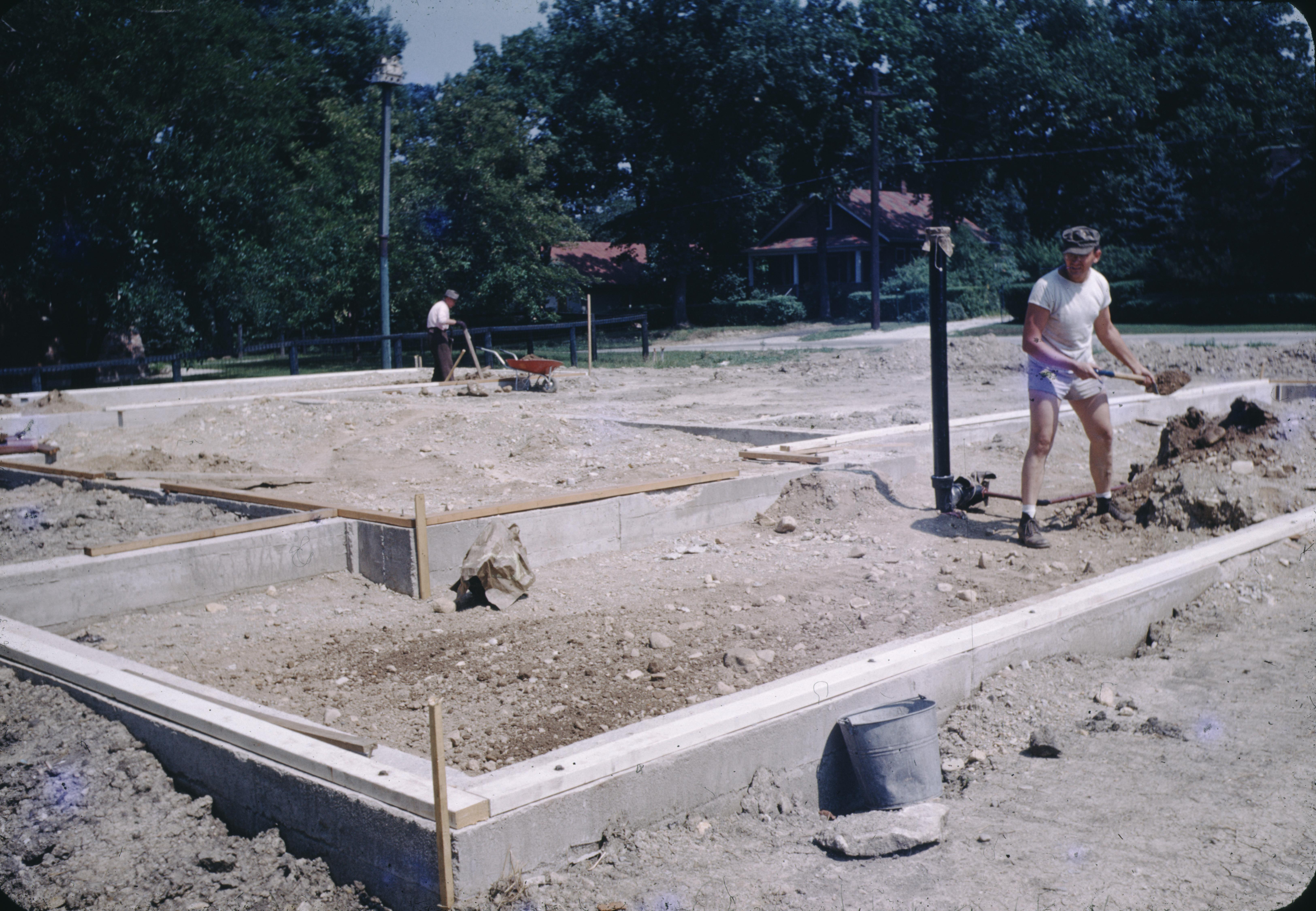 CyberViewX v5.16.55 Model Code=58 F/W Version=1.21 Photography by Victor Albert Grigas (1919-2017)